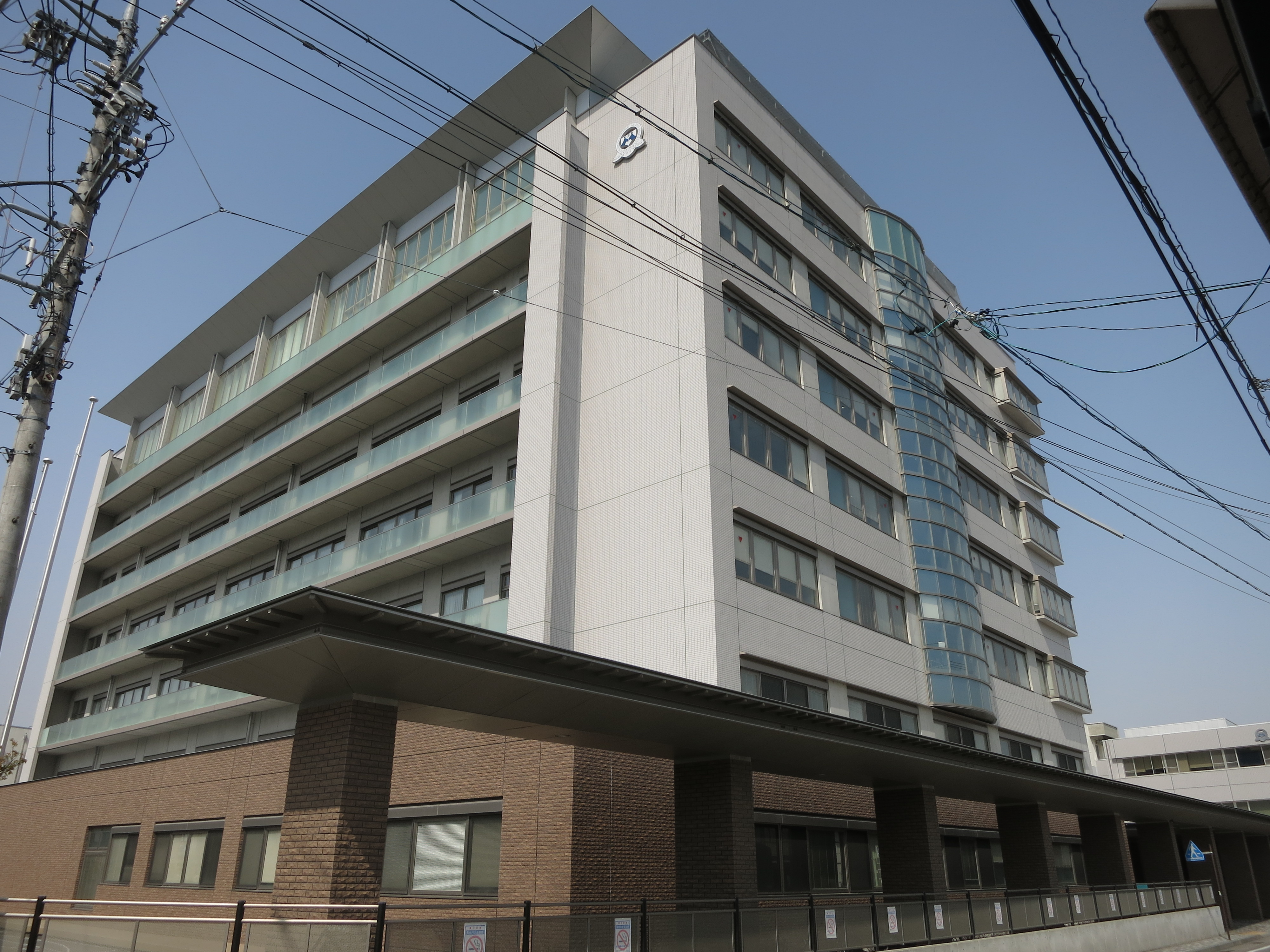 Nagano Matsushiro General Hospital